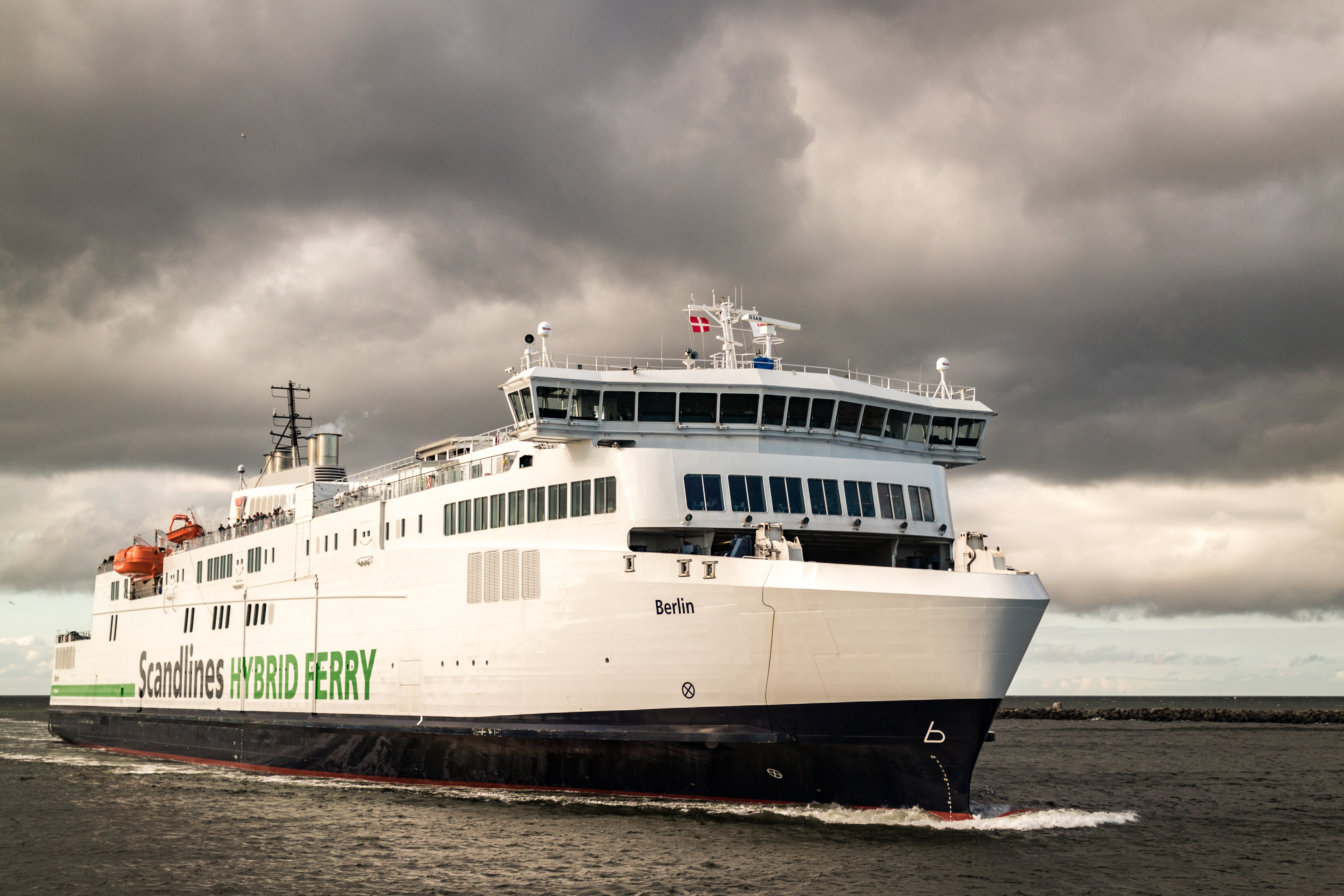 Scandlines HybridFerry Berlin @Warnemünde